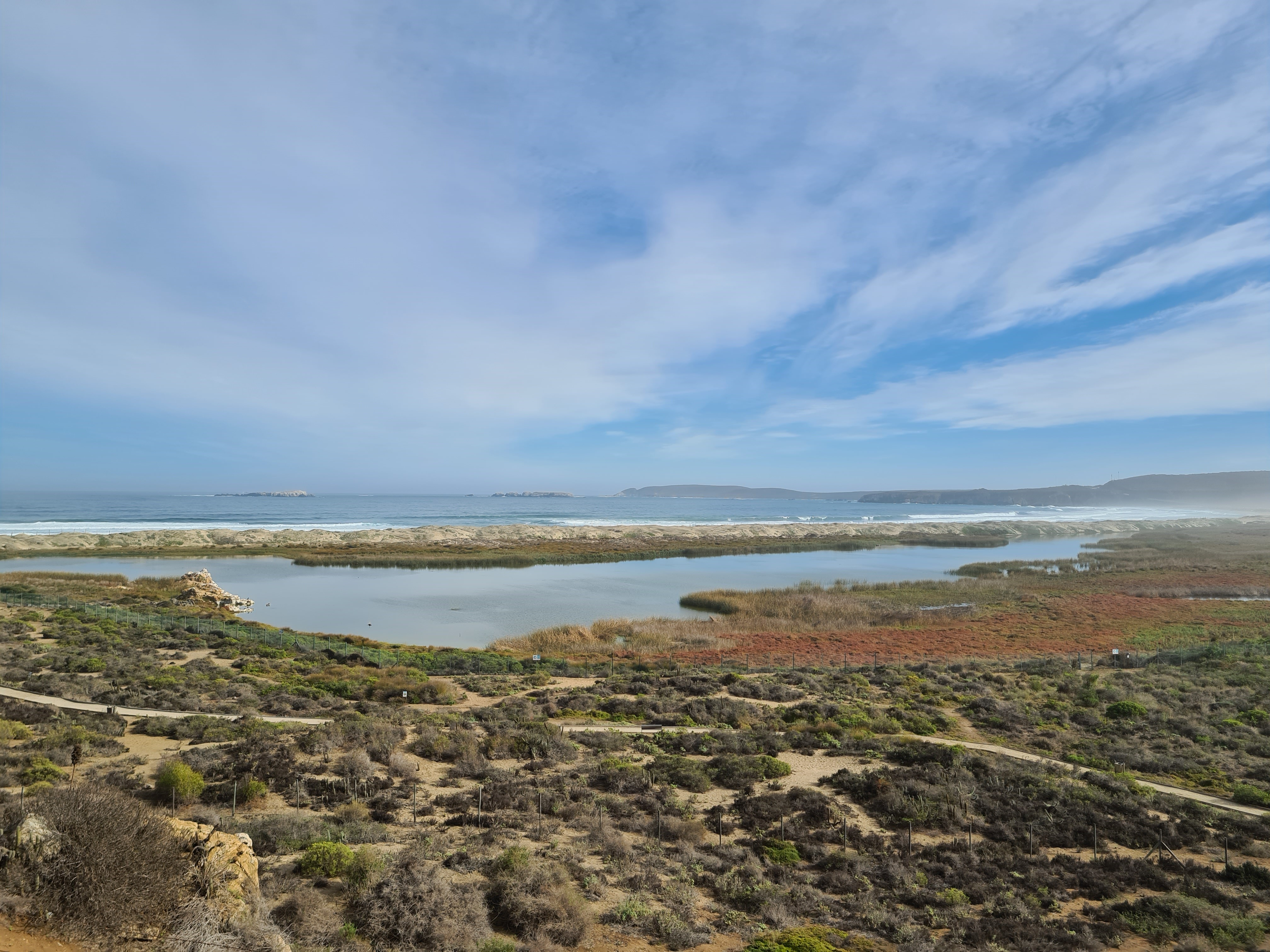 Laguna Conchalí in municipality of Los Vilos